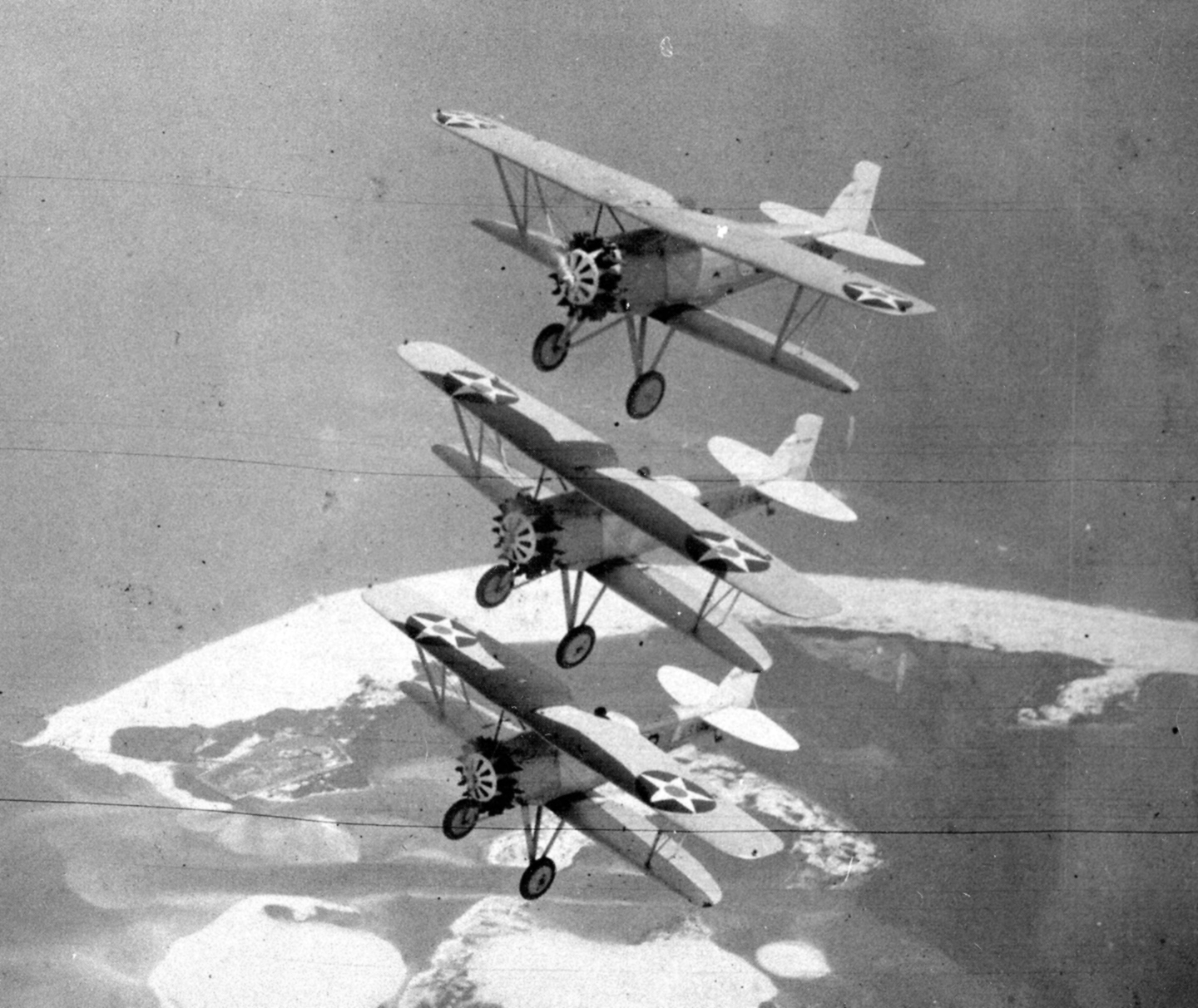 Three U.S. Navy Boeing F2B-1s flying in stacked formation. The aircraft were probably with "Three Sea Hawks" Aerobatic Team. The Boeing F2B was a carrier-based biplane fighter of the United States Navy of the 1920s, familiar to aviation fans of the era as the craft of the "Three Sea Hawks" aerobatic flying team, famous for its tied-together formation. The first flight of the F2B prototype was on 3 November 1926. The U.S. Navy acquired the prototype as XF2B-1, which was capable of reaching speeds of 248 km/h. Delivery began on 20 January 1928, with some assigned to Fighting Squadron VF-1B and others to Bombing Squadron VB-2B, both operating from the aircraft carrier USS Saratoga (CV-3). In 1927, Lt. D.W. "Tommy" Tomlinson, CO of VB-2B, created the first U.S. Naval aerobatic team. The first public performance as an official team representing the Navy was between 8 and 16 September 1928 during the National Air Races week at Mines Field (now Los Angeles International Airport). The Boeing F2B-1 was unable to fly inverted without the engine quitting; consequently, Lt. Tomlinson modified the carburetors to permit brief inverted flight. At the end of 1929, the "Three Sea Hawks" team was disbanded when its VB-2B pilots were reassigned.